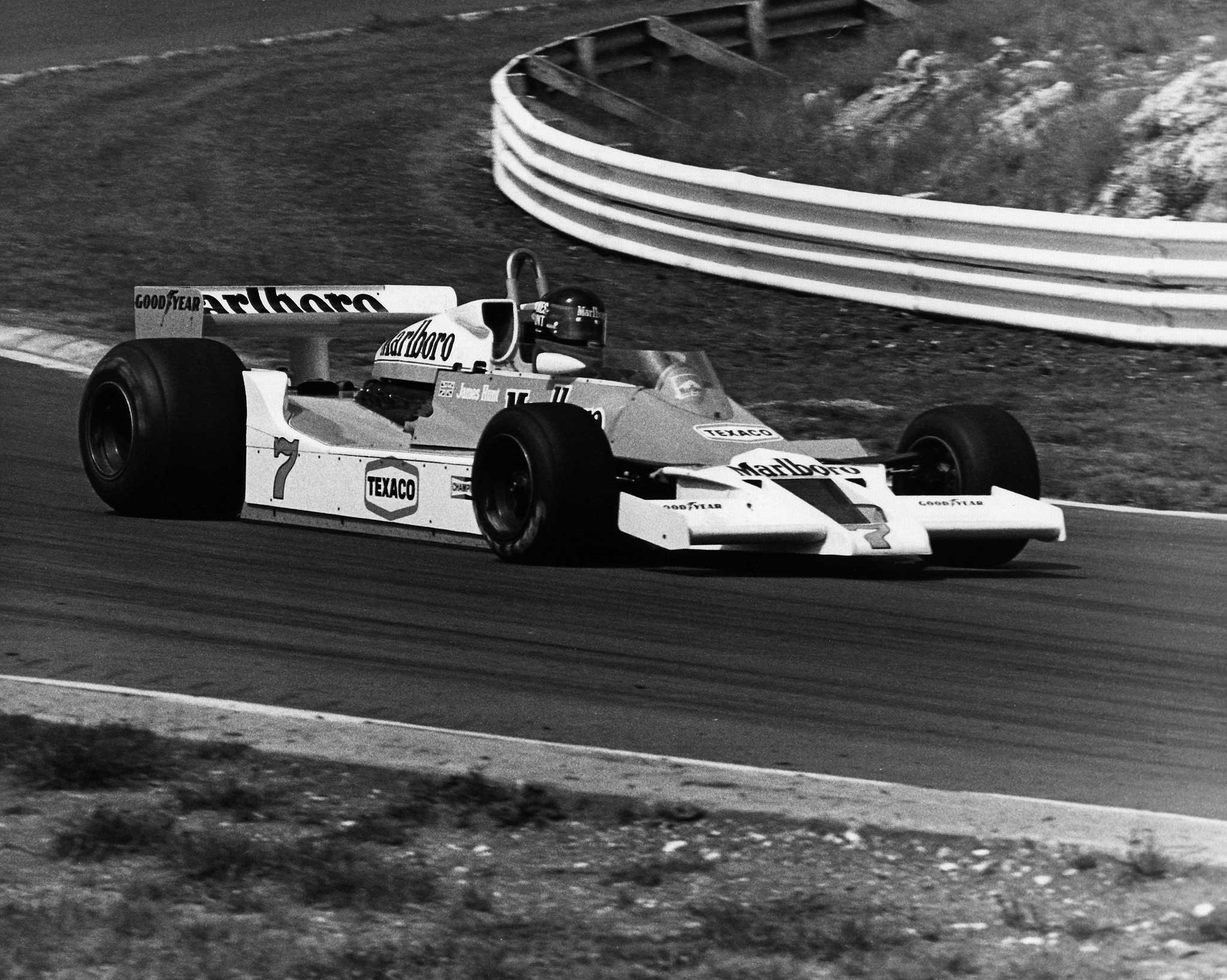 James Hunt 15th July 1978 at Brands Hatch in a McLaren-Ford McLaren M26 Retired on lap 7 with another infamous shunt. British GP Scanned from a print.